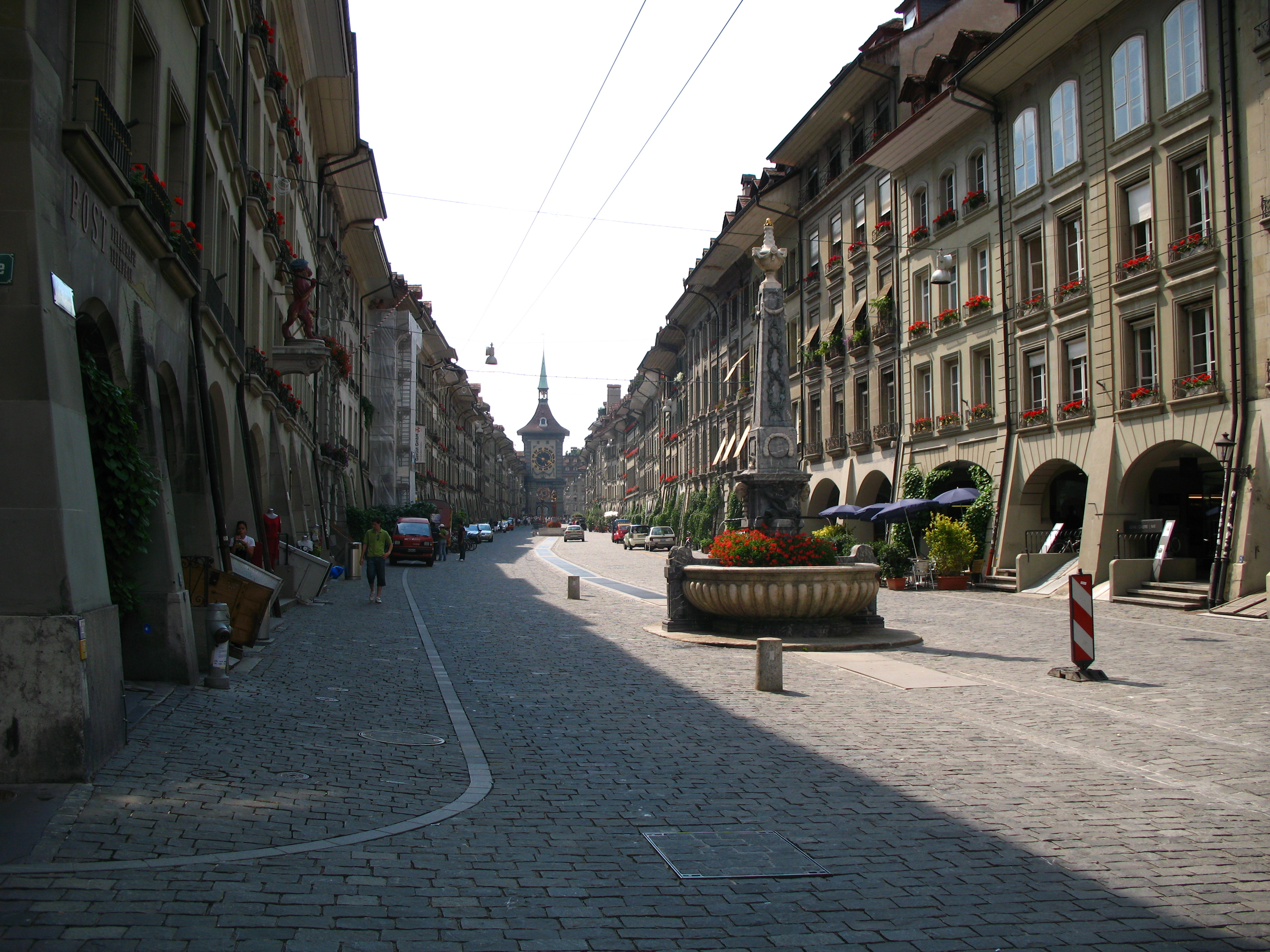 Kreuzgass Fountain, and the Clocktower on Kramgasse, Berne, Switzerland